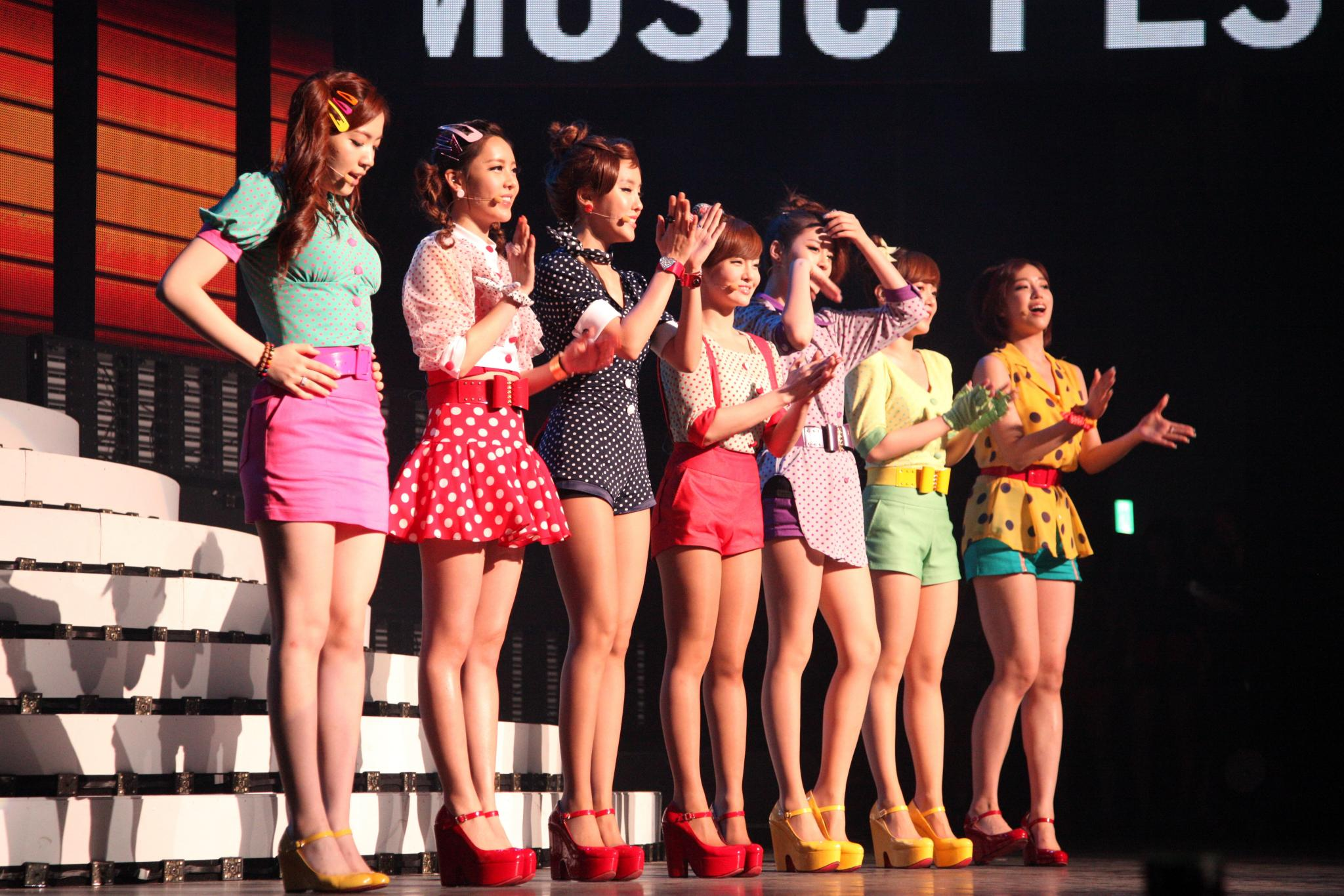 티아라 @ Cyworld Dream Music Festival 싸이월드 드림 뮤직 페스티벌_13